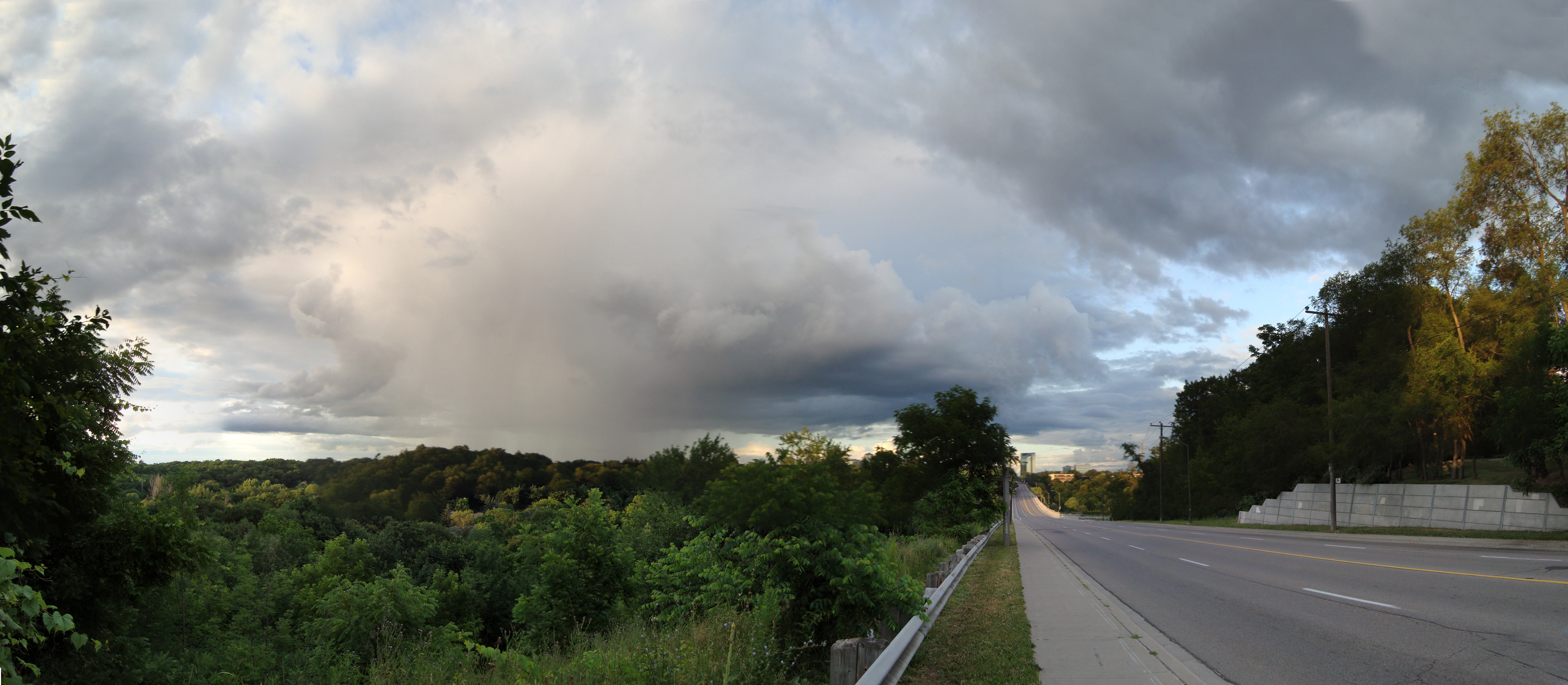 A panorama of Willowdale, Ontario, Canada during a sun shower